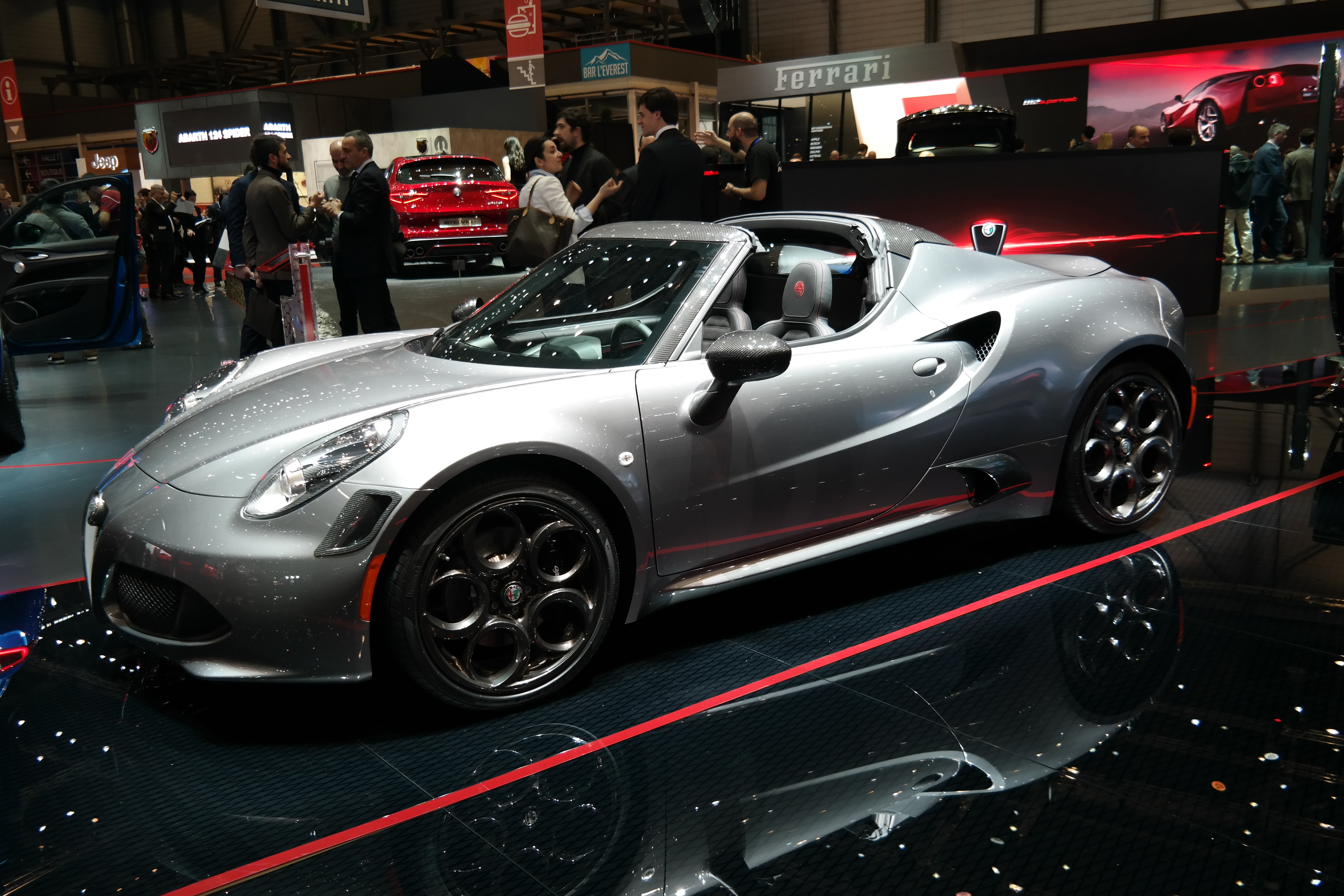 Geneva Motor Show 2017 (photo taken on the first press day)